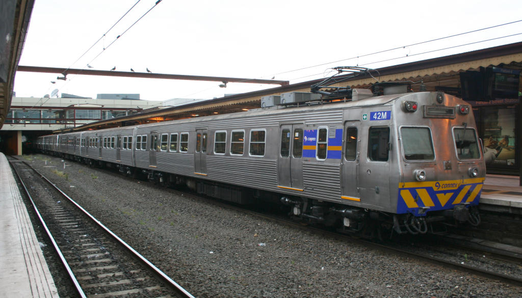 Refurbished Hitachi (train) led by 42M at Flinders Street Station